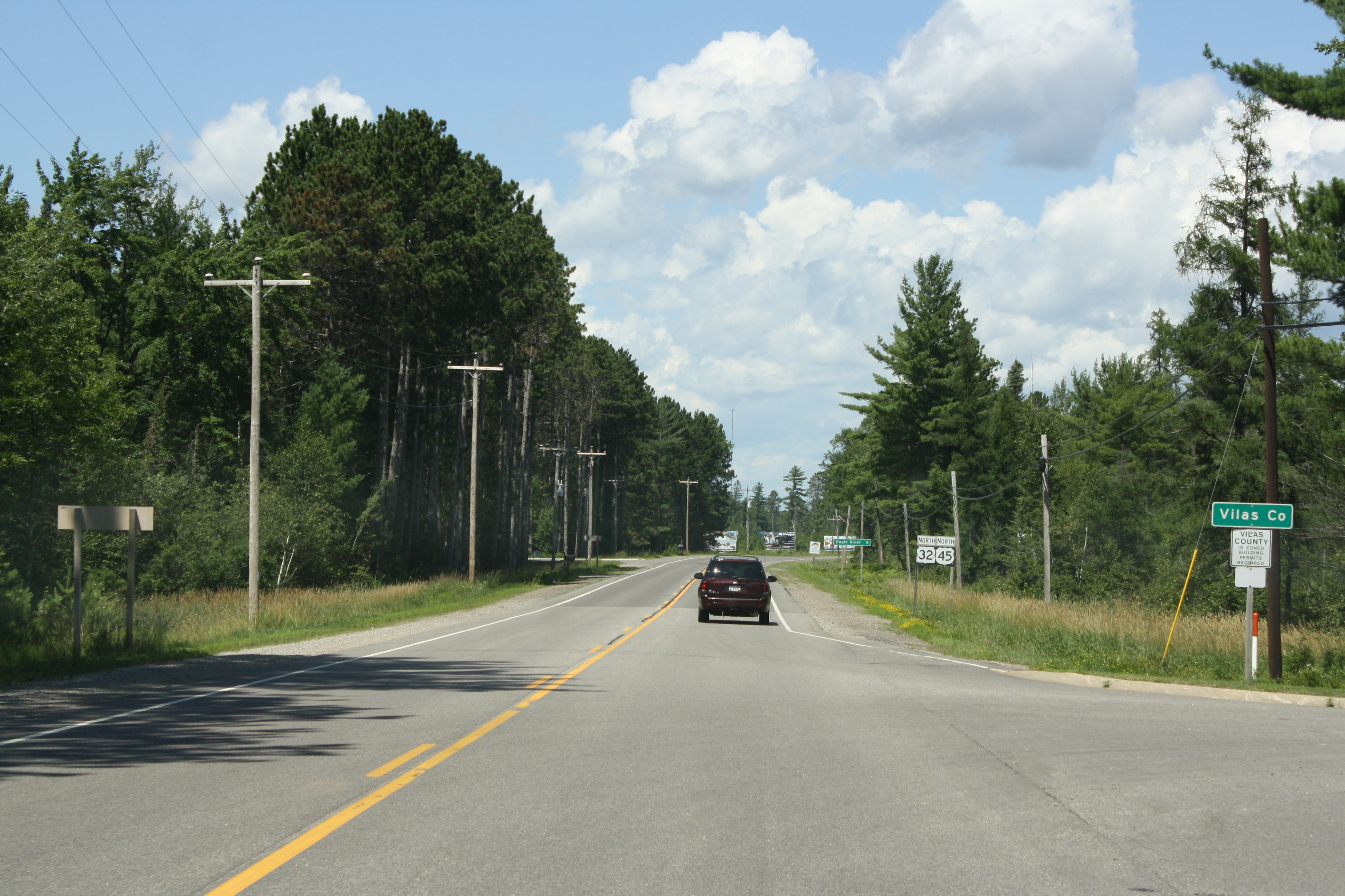 Looking north at the sign for Oneida County, Wisconsin on U.S. Route 45.